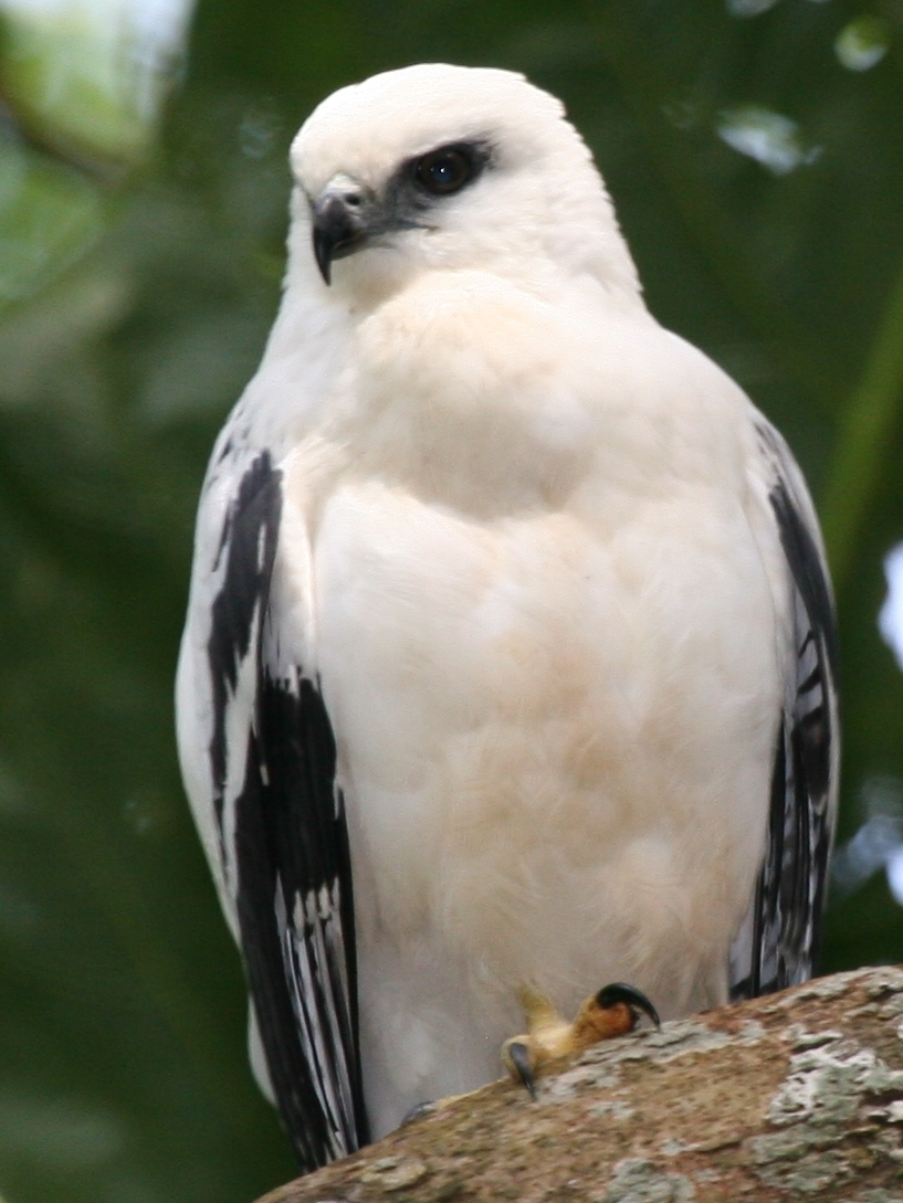 White Hawk (Pseudastur albicollis), Honduras